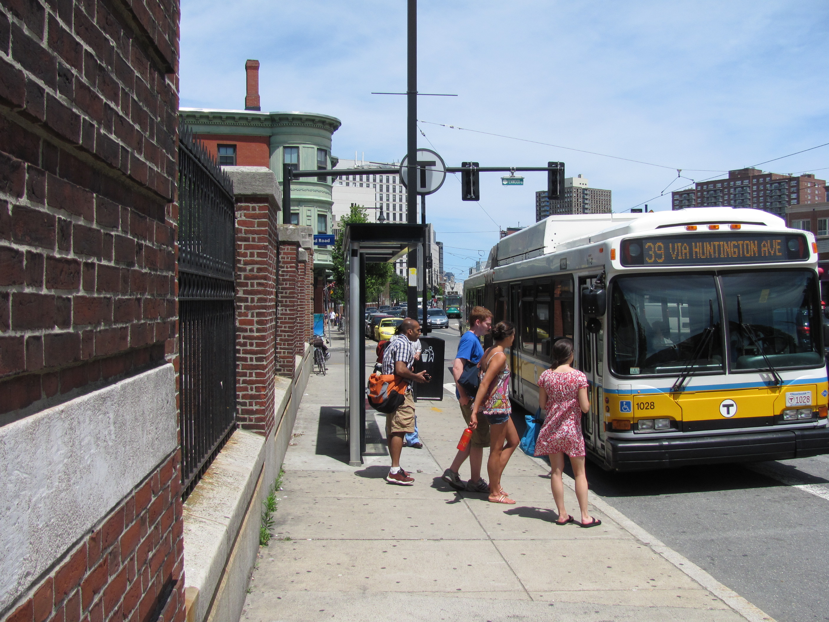 Fenwood Road MBTA station, Boston Massachusetts